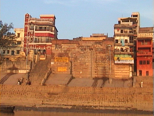 See Varanasi Development Cooperation Handbook/Stories/Responsible Development - Varanasi The Varanasi Heritage Dossier Kautilya Society Play media Vrinda Dar - How we got involved in heritage protection of Varanasi